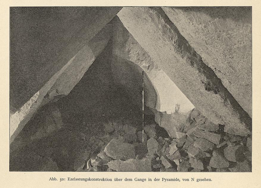 The limestone beams of the pyramid substructure. Taken from Ludwig Borchardt's Das Grabdenkmal des Königs Nefer-ir-ka-re (1909).